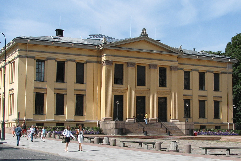 The Domus Bibliotheca of the University of Oslo at Karl Johans gate, Oslo, Norway.